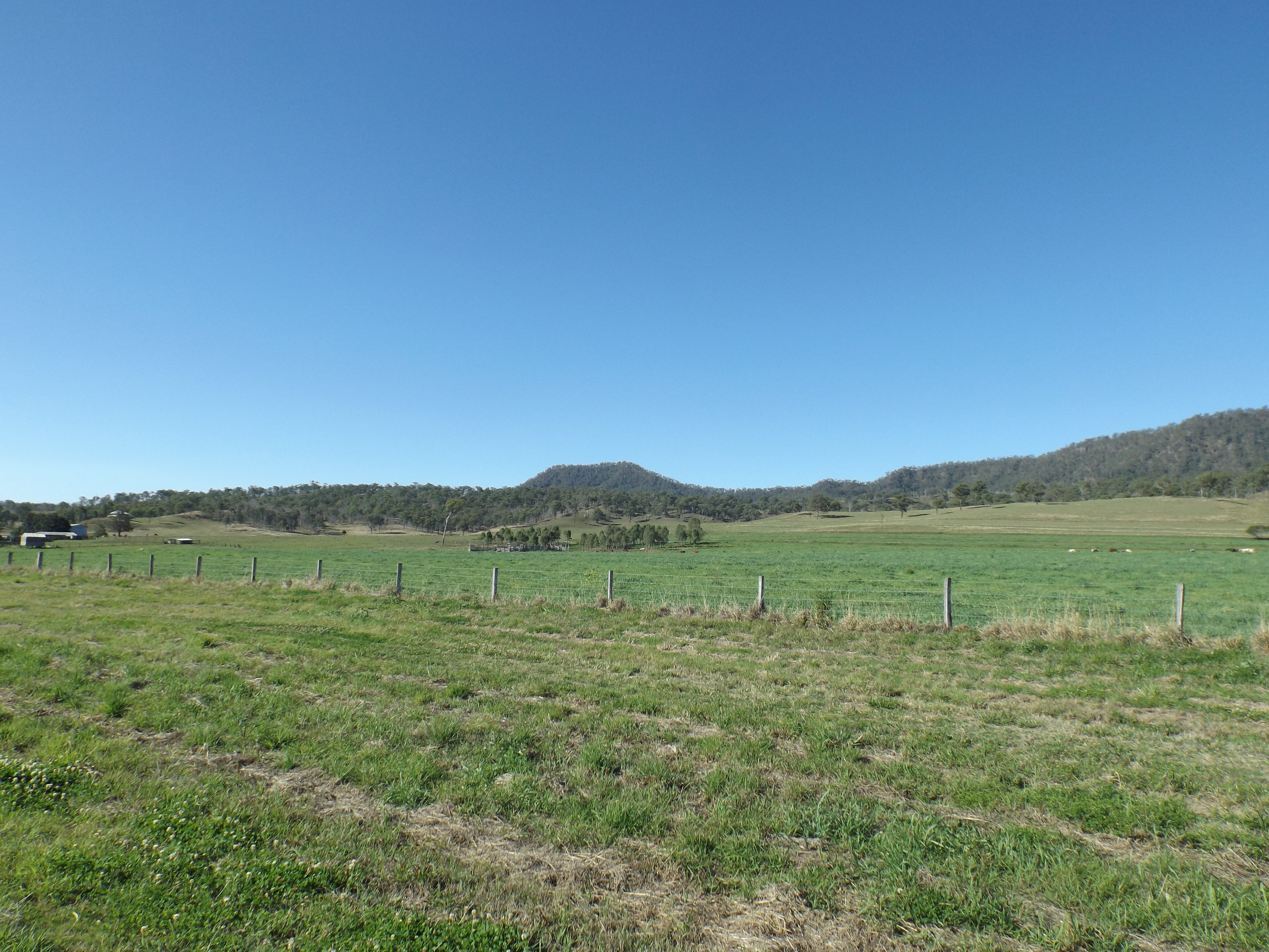 Photo of fields at Christmas Creek, Scenic Rim Region, Queensland, Australia.